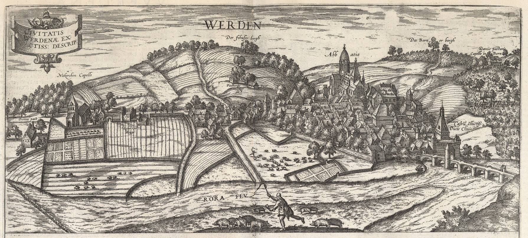 Werden in the year 1581, at the river Ruhr.